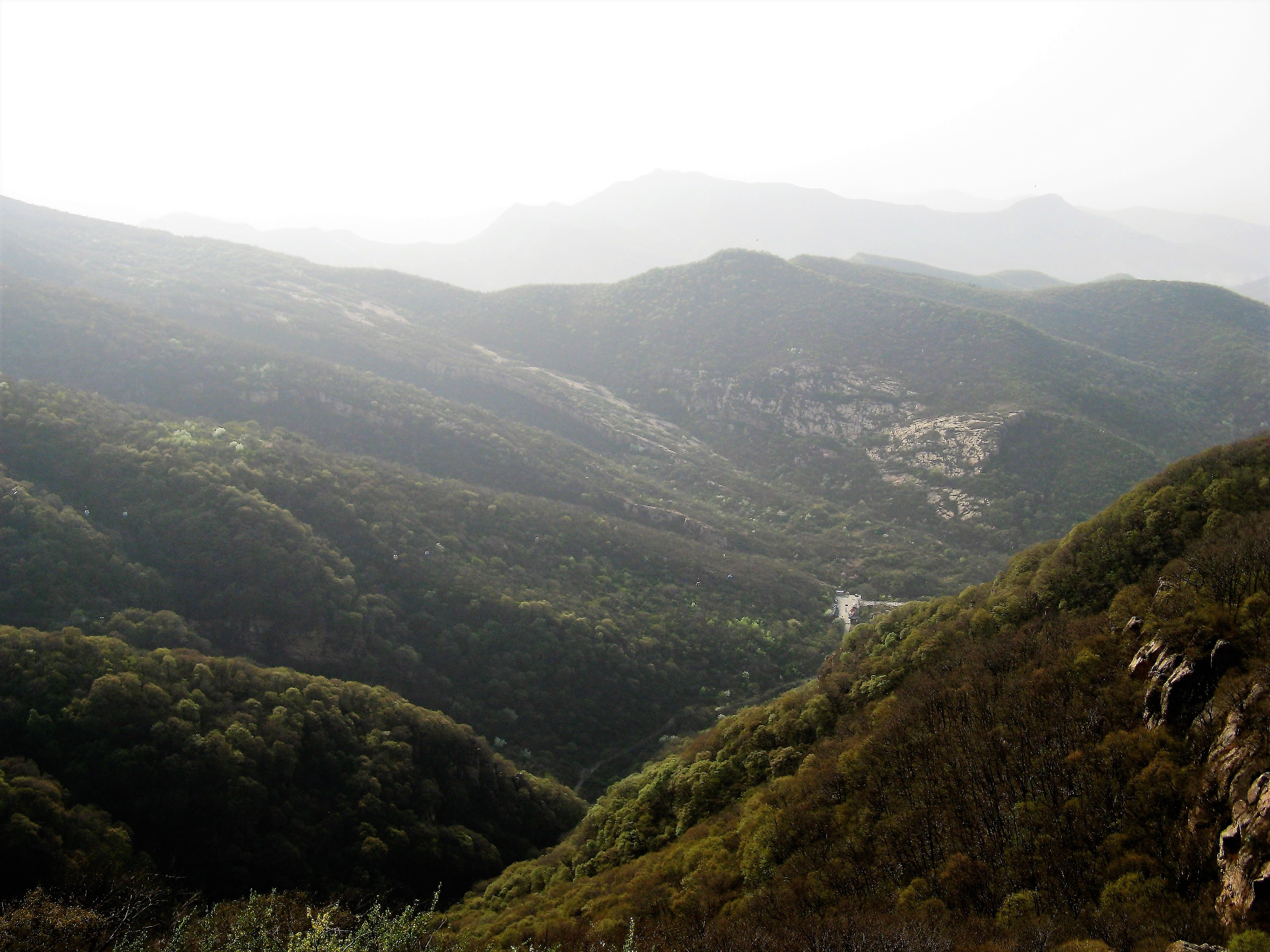 A view looking down onto the gondola that goes up Songshan—Mount Song. One of the Taoist Five Great Mountains — located in Henan Province, China.